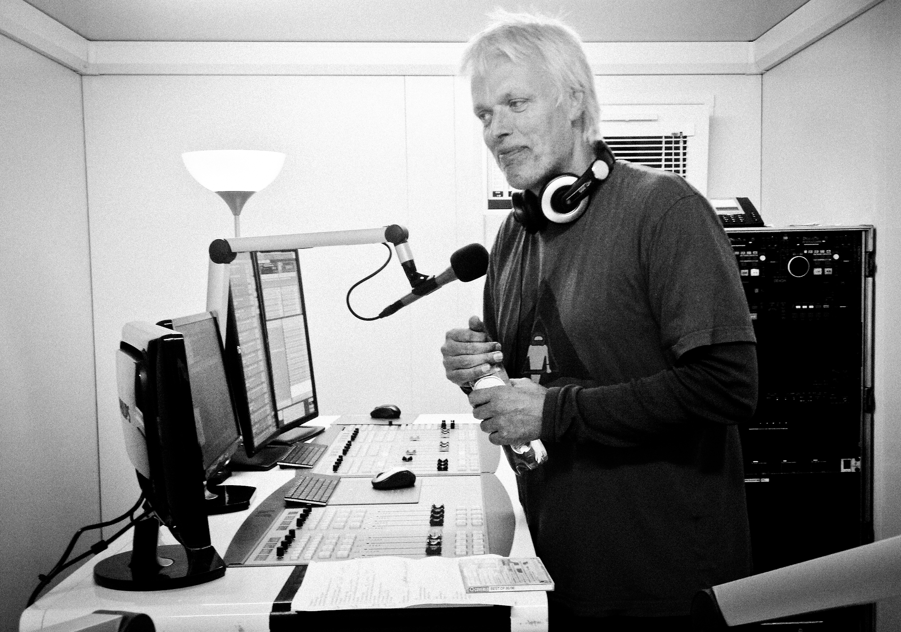 DHFM met Harry Zevenbergen ondertaal.nl